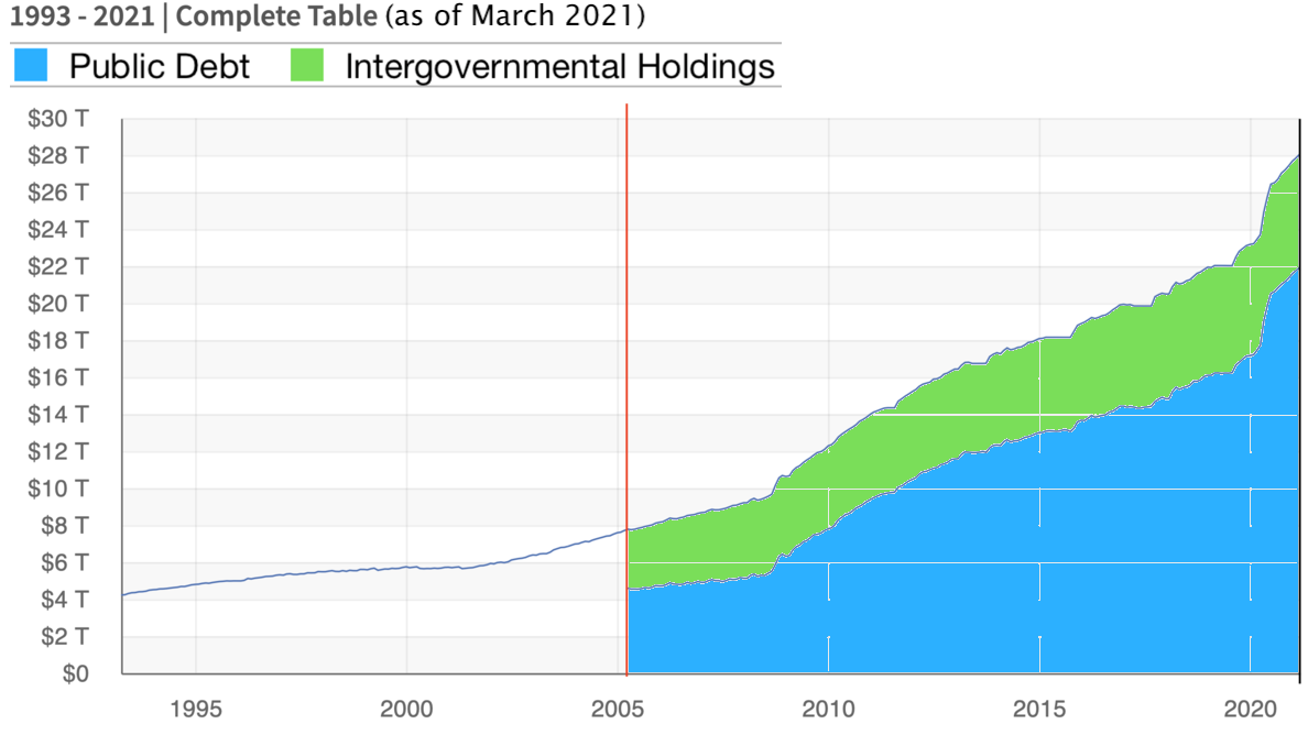 US National Debt public/intergovernmental